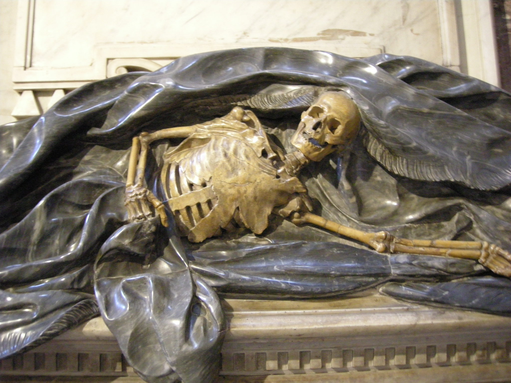 see filename Giovanni Battista Foggini (1652–1725) Alternative names Giovan Battista FogginiDescriptionItalian sculptor and architectDate of birth/death 25 April 1652 12 April 1725 Location of birth/death Florence FlorenceWork location Florence Authority control : Q1353158 VIAF: 54417307 ISNI: 0000 0000 6634 8553 ULAN: 500020988 LCCN: n78007906 WGA: FOGGINI, Giambattista WorldCat creator QS:P170,Q1353158